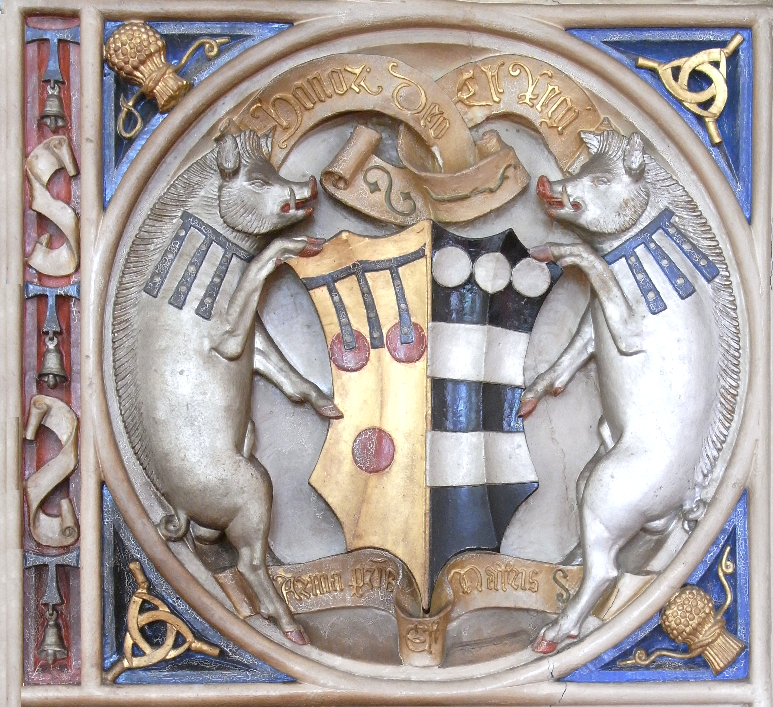 Detail from Bishop Peter Courtenay's Mantelpiece (c.1480?), Bishop's Palace, Exeter. Arms of Courtenay of Powderham impaling Hungerford (arms of the father and mother of Bishop Peter Courtenay (d.1492)). Supporters: two Courtenay boars each charged with a label of 3 points each point charged with 3 roundels. On a scroll above: "Honor deo et regi" (honour to God and the king); on a scroll below: "Arma p(at)rib(us) et matris" (The arms of his (fore)fathers and mother). In the 4 spandrels are the heraldic badges of the Hungerford family: a garb (wheatsheaf) (Pevrell garb) and 3 conjoined sickles. The left border contains 3 tau crosses from each of which hang a bell, symbols of St Anthony of Egypt, a favourite saint of the bishop (See: Rev. George Oliver, Lives of the Bishops of Exeter and a History of the Cathedral, Exeter, 1861, pp.255-257) and in reference to his office as Master of St. Anthony's Hospital, St Benet Fink in the City of London. In 1883 no traces of colouring survived, thus the present colourings are modern. (See: Maria Halliday, A Delineation of the Courtenay Mantelpiece in the Episcopal Palace at Exeter by Roscoe Gibbs, Torquay, 1884).